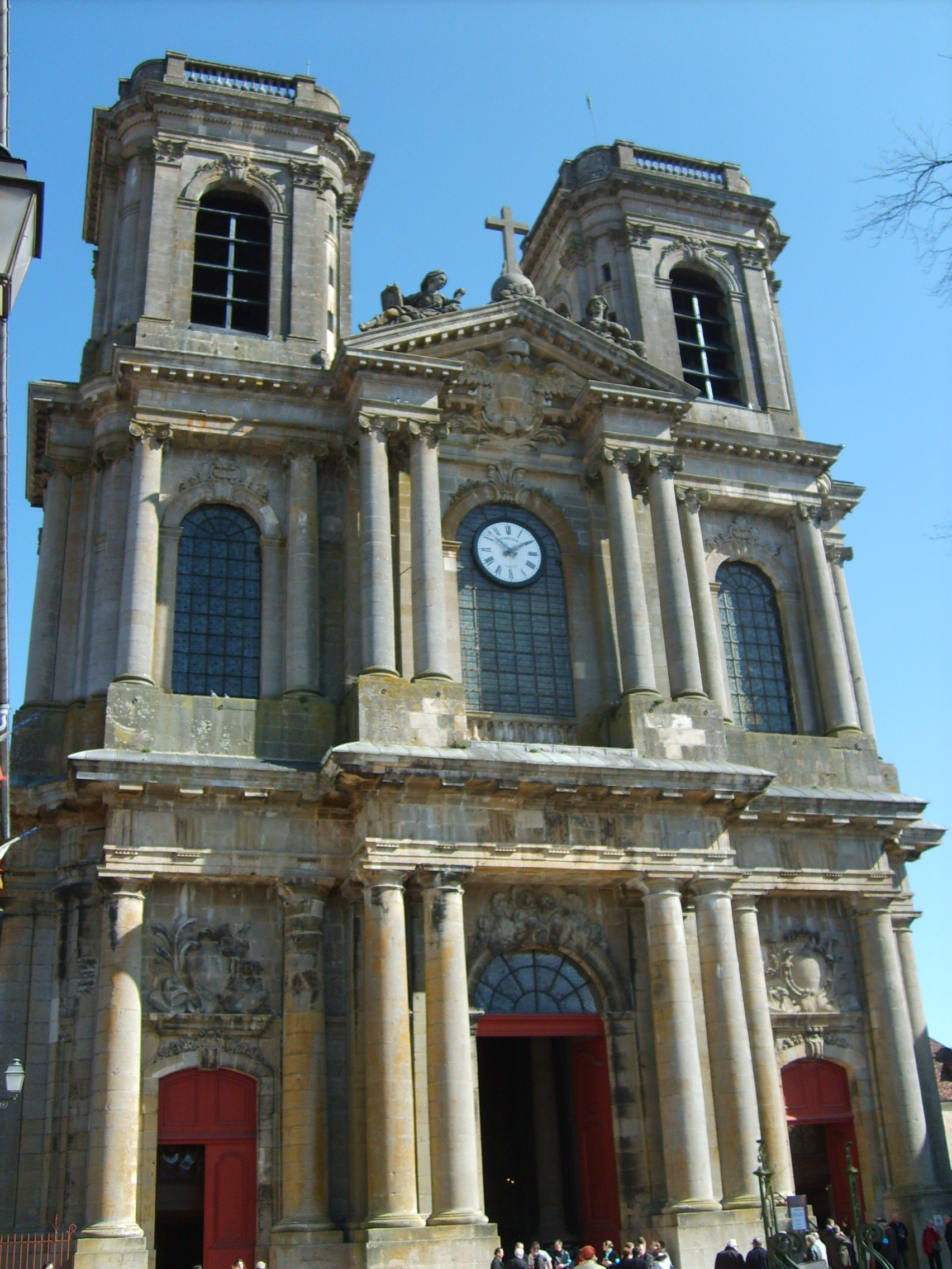 Langres' cathedrale, front view